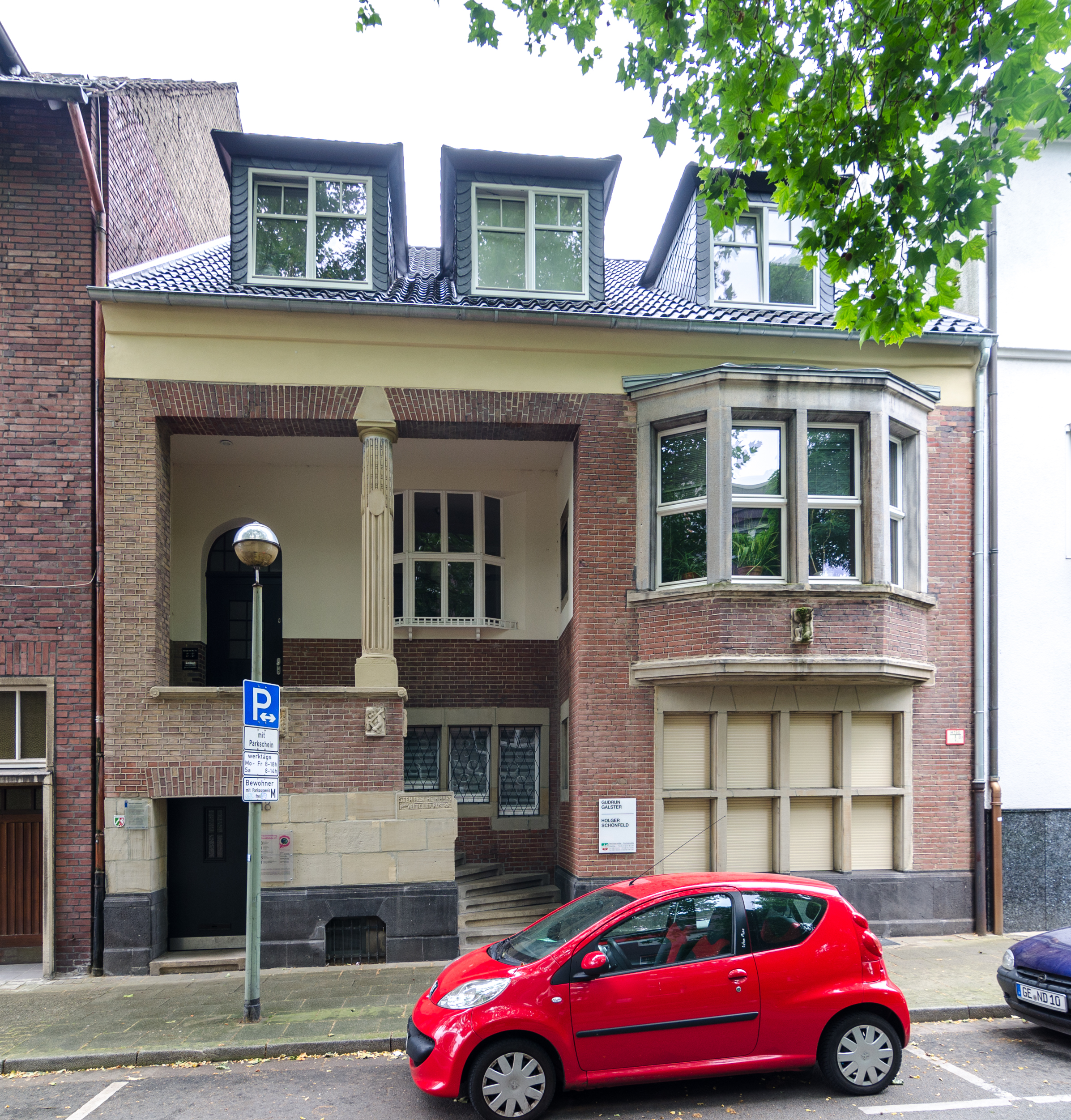 Gelsenkirchen (North Rhine-Westphalia, Germany) – city center – former house of Josef Franke